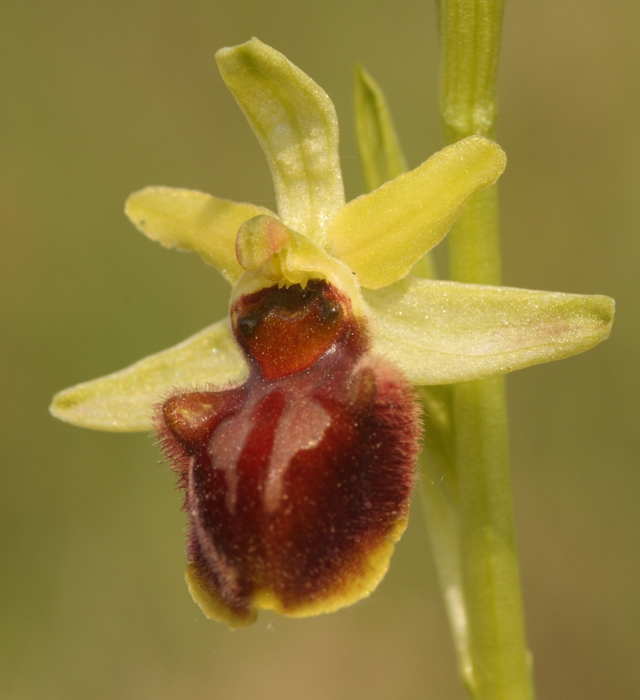 Ophrys sphegodes, Mekszikópuszta, Hungary